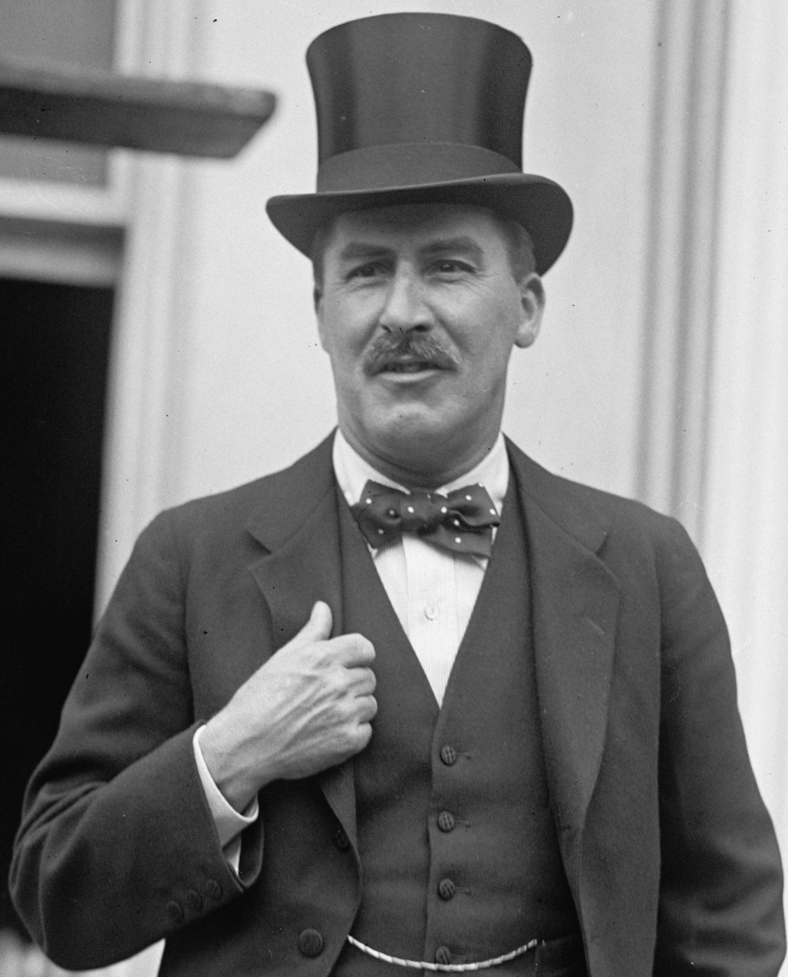 British archaeologist and Egyptologist Howard Carter (1874-1939)